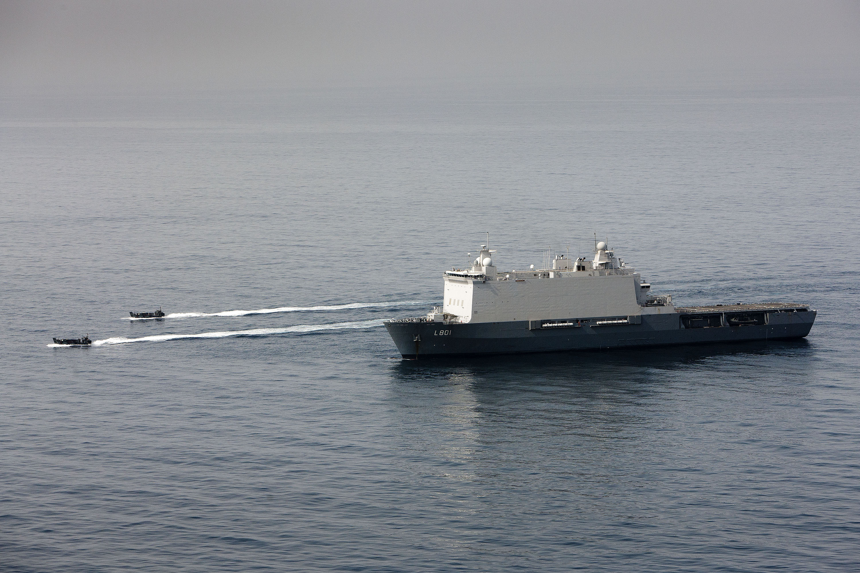 HNLMS Johan de Witt (L801) with two LCVPs in the Gulf of Aden